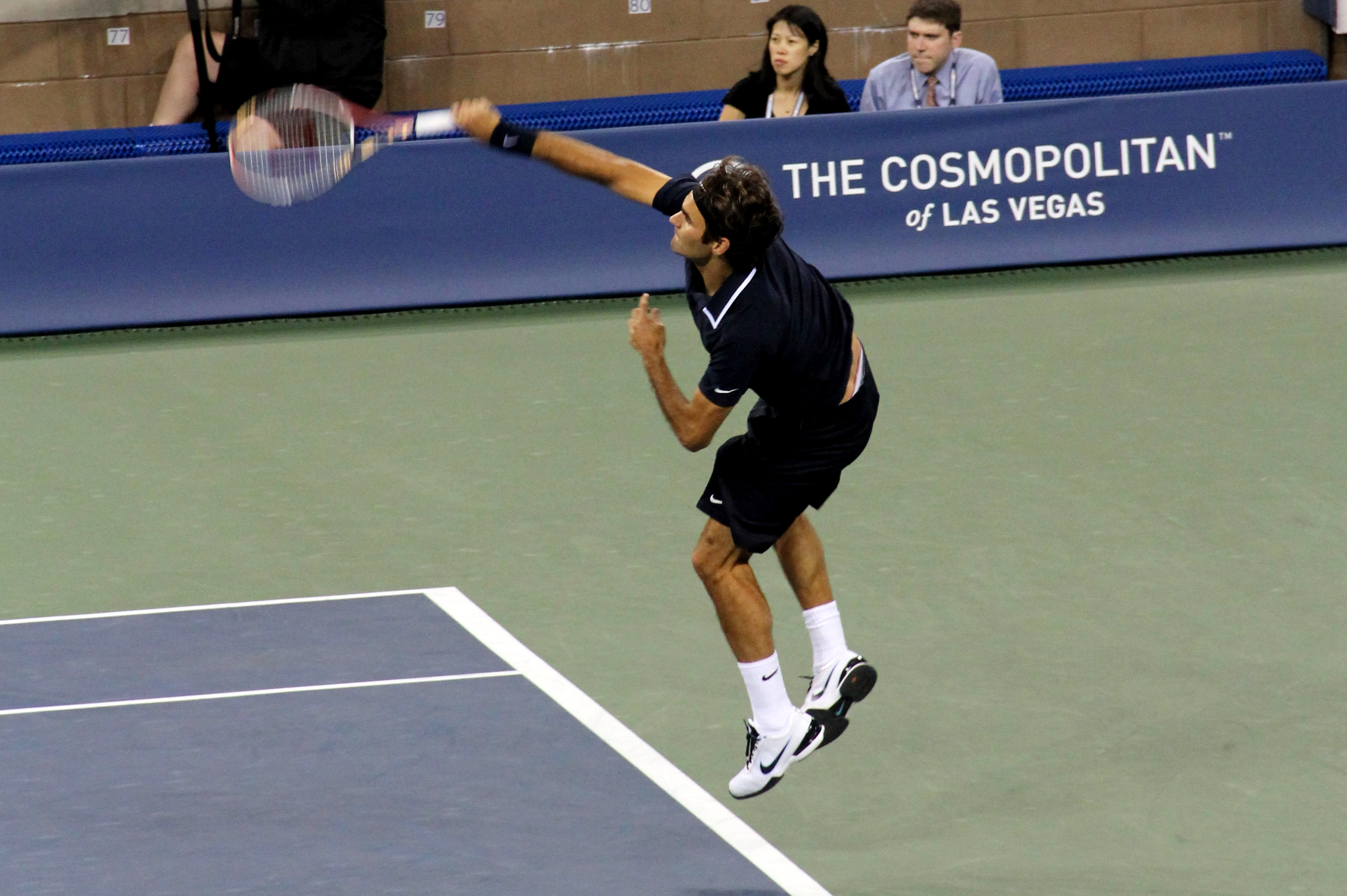 Roger Federer on Wednesday night at the US Open where he won against Robin Soderling. The Cosmopolitan is in New York for the 2010 US Open, inviting attendees and guests to experience signature views from our Overlook and in our custom designed suite with prime-stadium seating. For more information on The Cosmopolitan visit